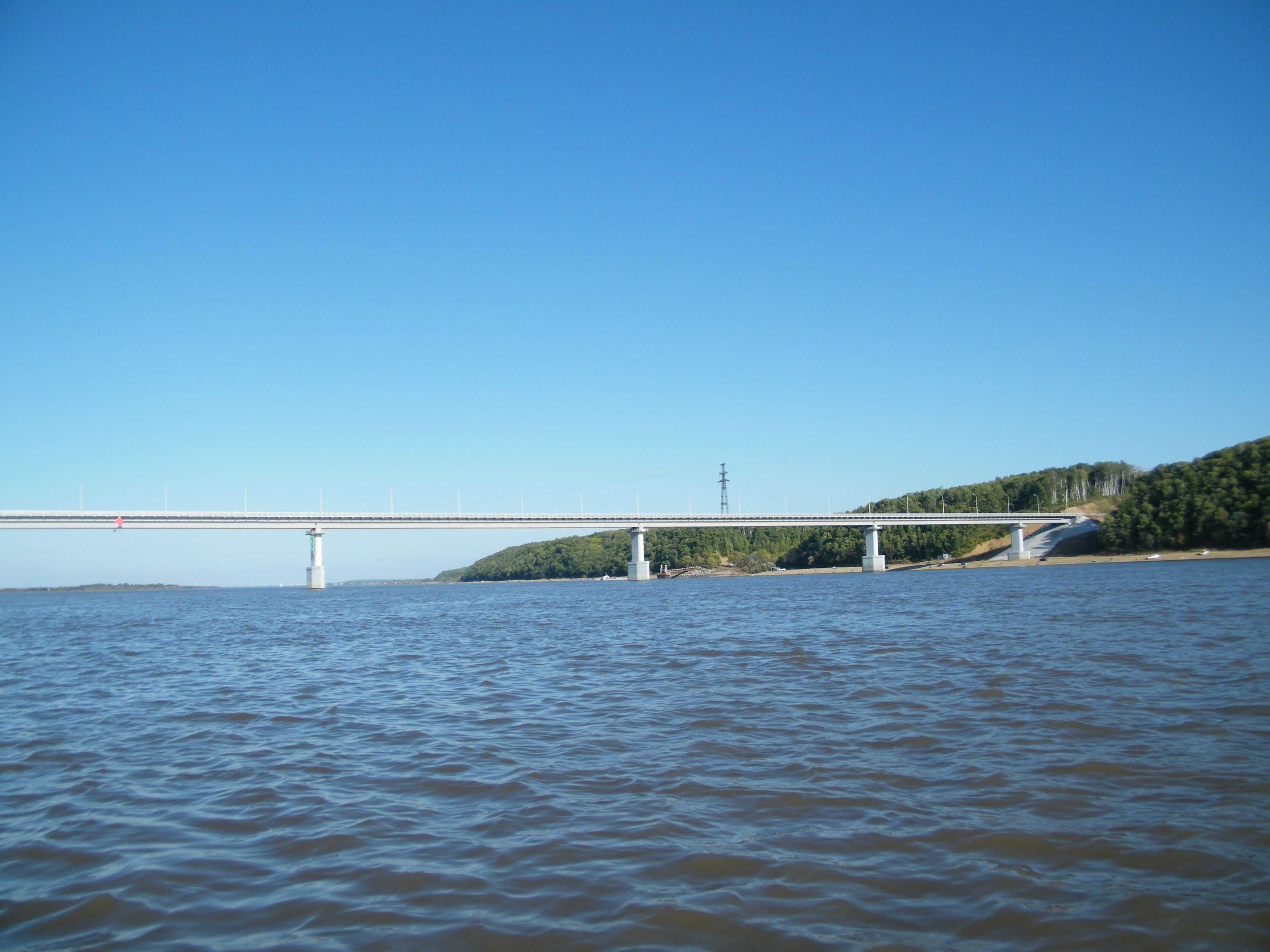 Amurskaya protoka